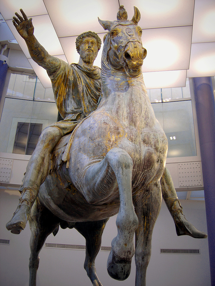 equestrian statue of Marcus Aurelius, Capitoline Museums, Rome.